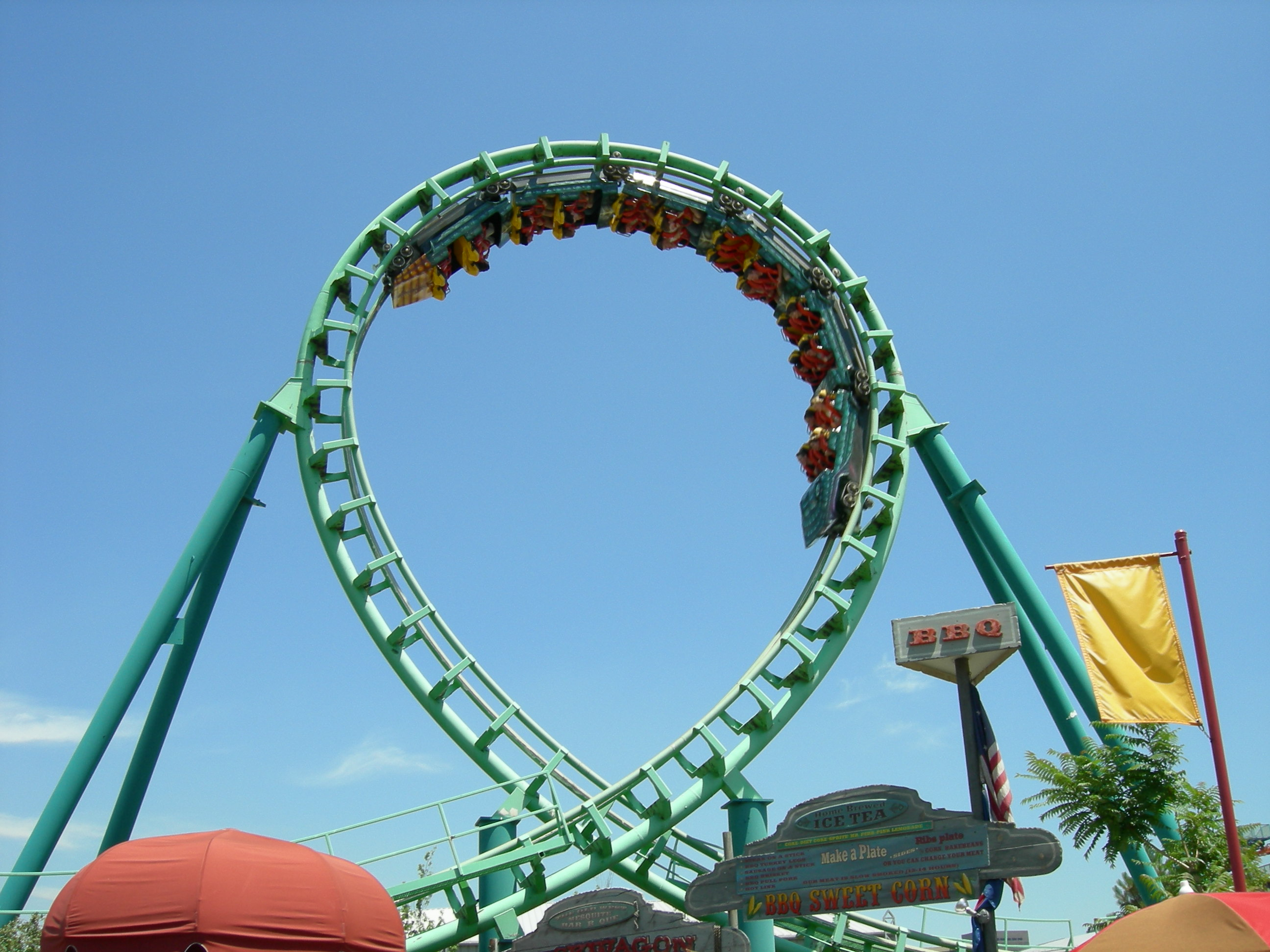 Sidewinder at Six Flags Elitch Gardens. Pic taken on July 10th, 2006 by Carl F.